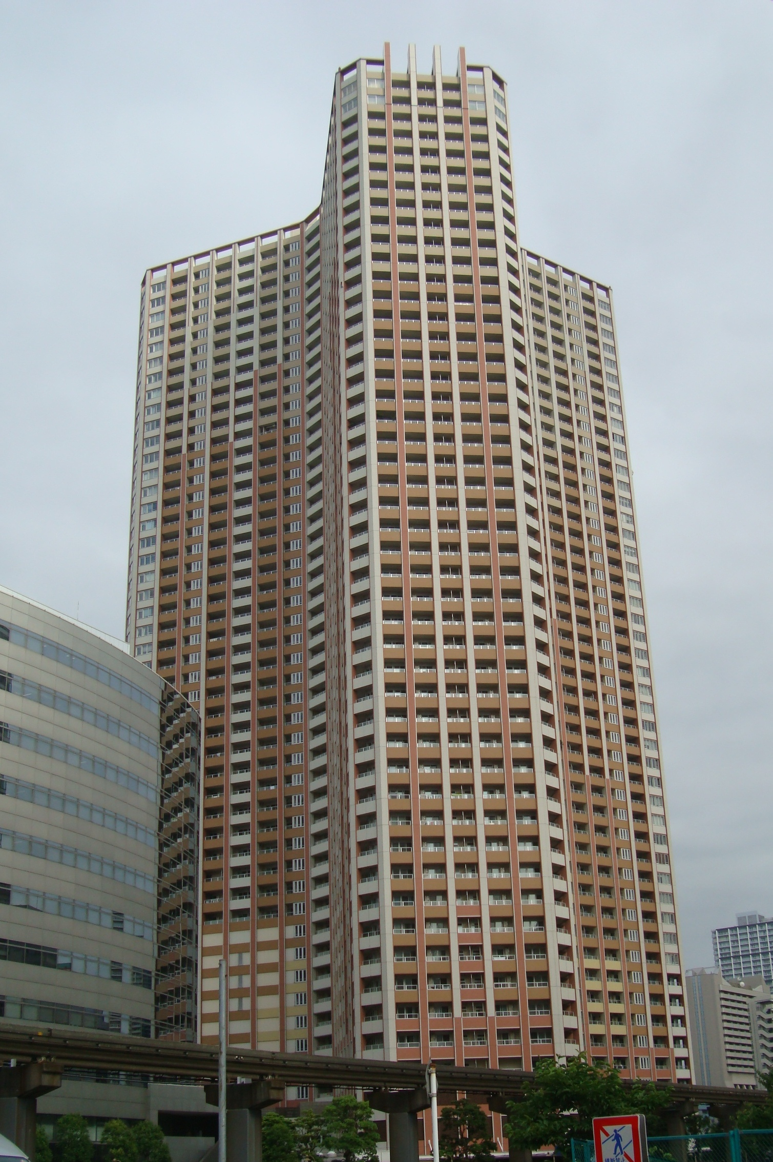 Cape Tower apartment building at the Shibaura Island complex in Shibaura, Tokyo